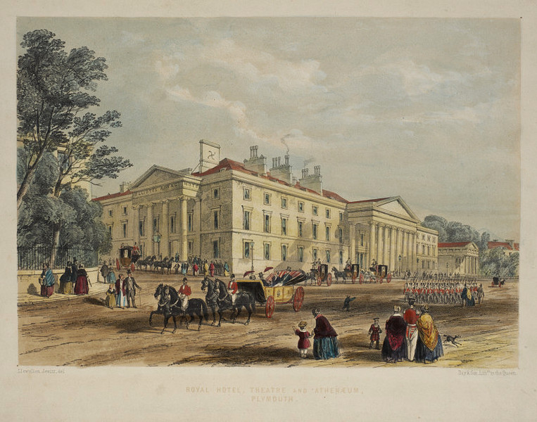 Royal Hotel Plymouth by Llewellyn Frederick William Jewitt - Day & Son (lithographer)